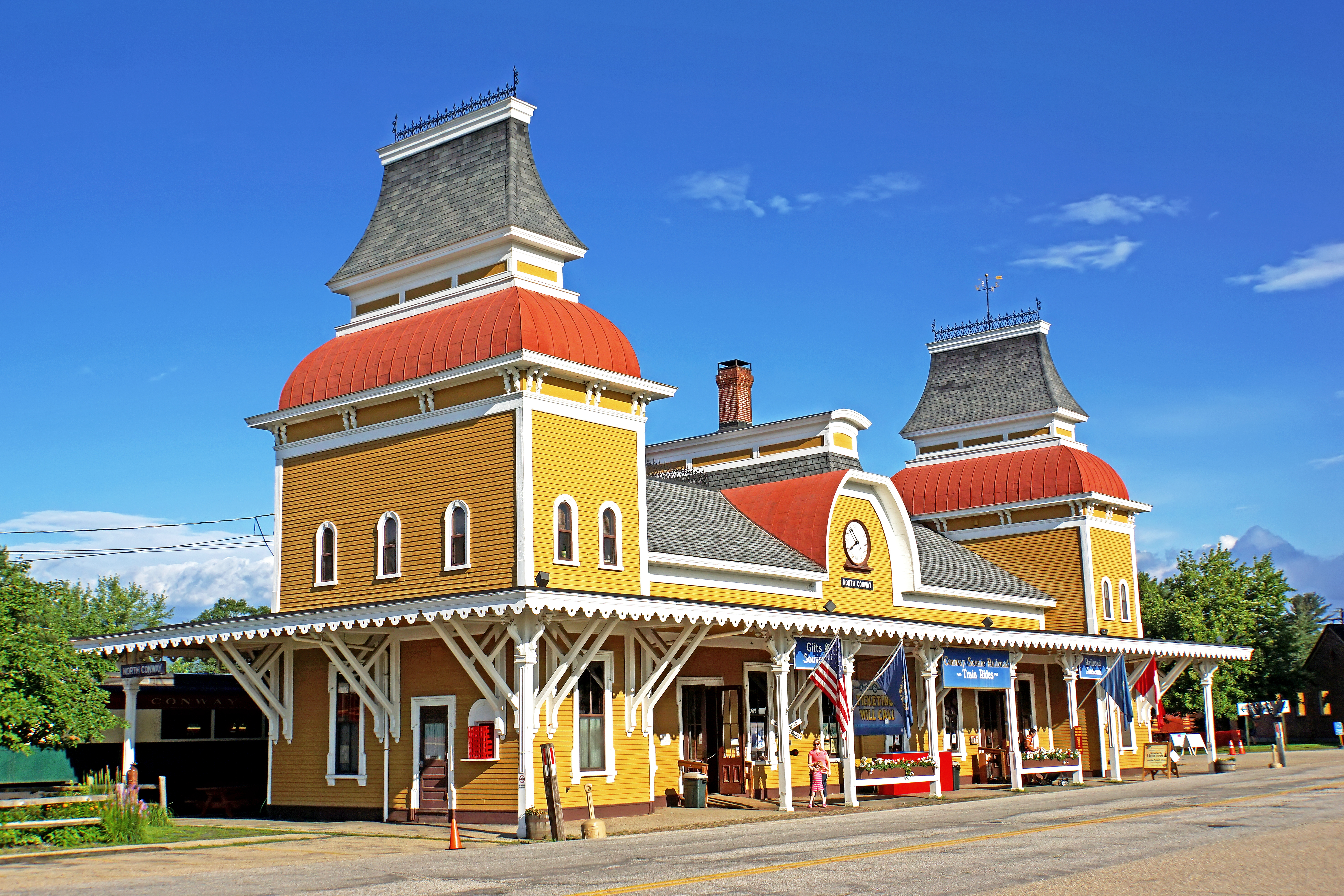 North Conway Railway Station in the center of North Conway Village has been regional landmark since its completion in 1874. In the late 19th Century, the railroad was an integral part of the rise of tourism in the White Mountains, New Hampshire. The Conway Scenic Railroad is a heritage railway in North Conway, New Hampshire. The railroad operates over two historic railway routes: a line from North Conway to Conway that was formerly part of the Conway Branch of the Boston and Maine Railroad, and a line from North Conway through Crawford Notch to Fabyan that was once part of the Mountain Division of the Maine Central Railroad. The Conway line is owned by Conway Scenic and the Mountain Division is owned by the State of New Hampshire. Russ Seybold is owner and president of the Conway Scenic.